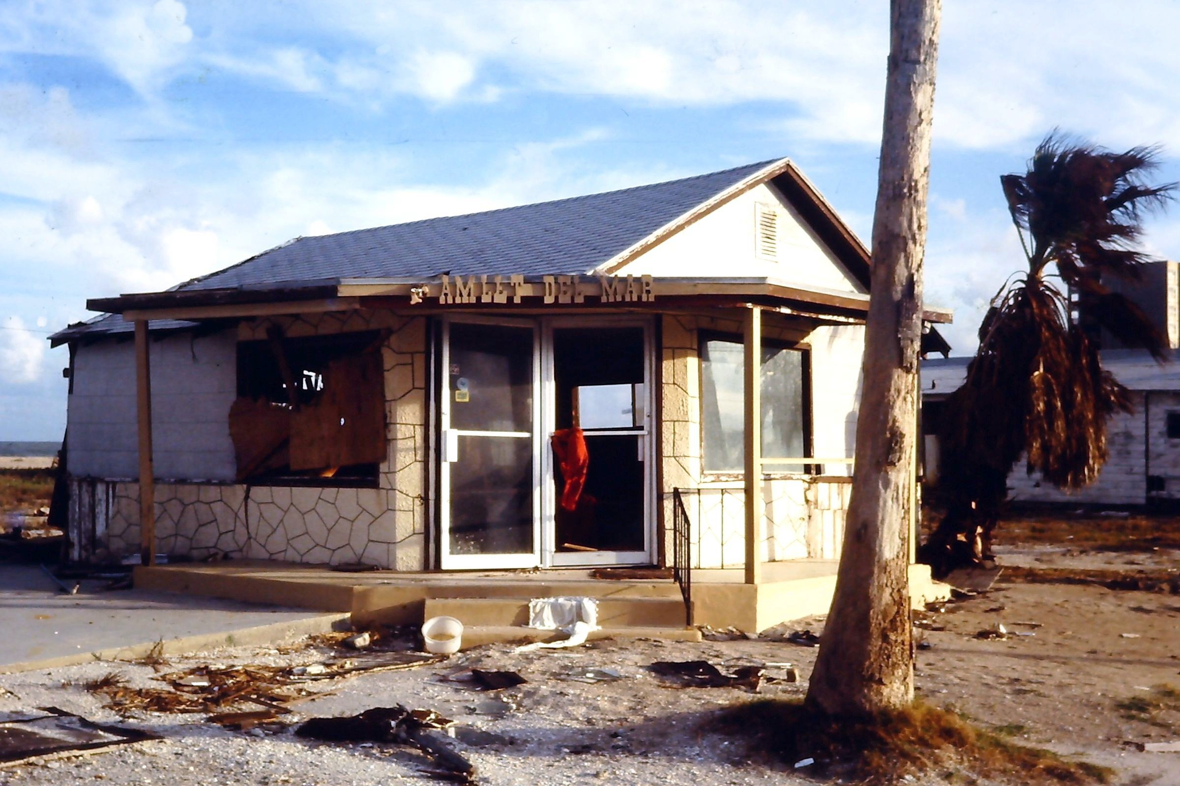 ...was a small seafood restaurant at 4418 Gulfbreeze Blvd. Pictures taken on Corpus Christi Beach a few weeks after Hurricane Allen landed. Most of the structures in these photos were damaged beyond repair and had to be demolished.